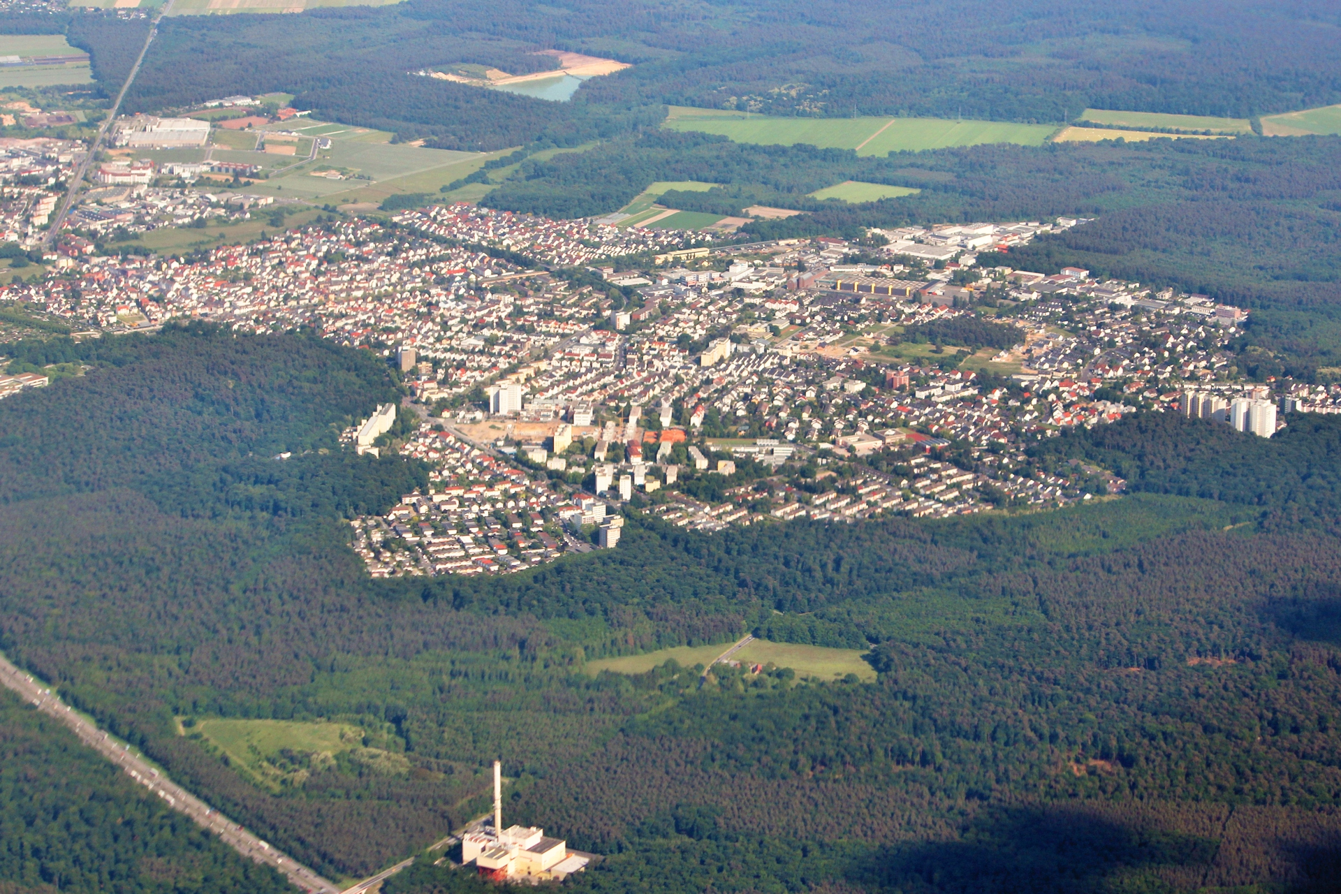 Aerial view of Heusenstamm, Germany